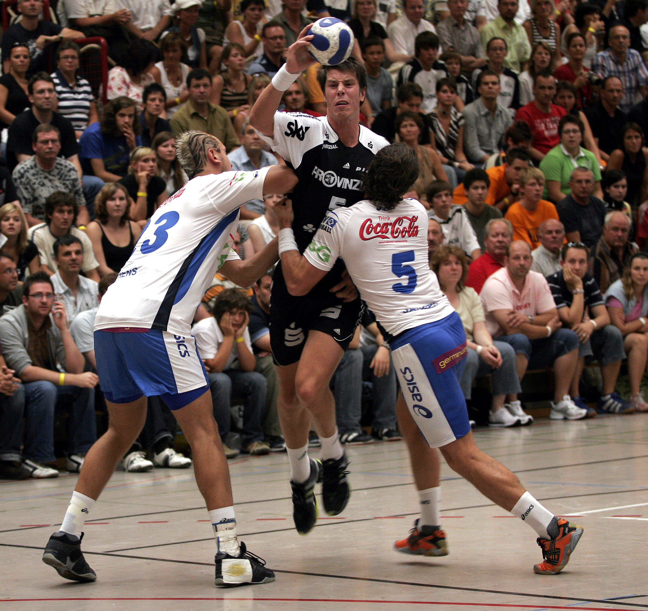 Kim Andersson, Swedish handball player from THW Kiel, during the Schlecker Cup 2007 in Ehingen (Germany)